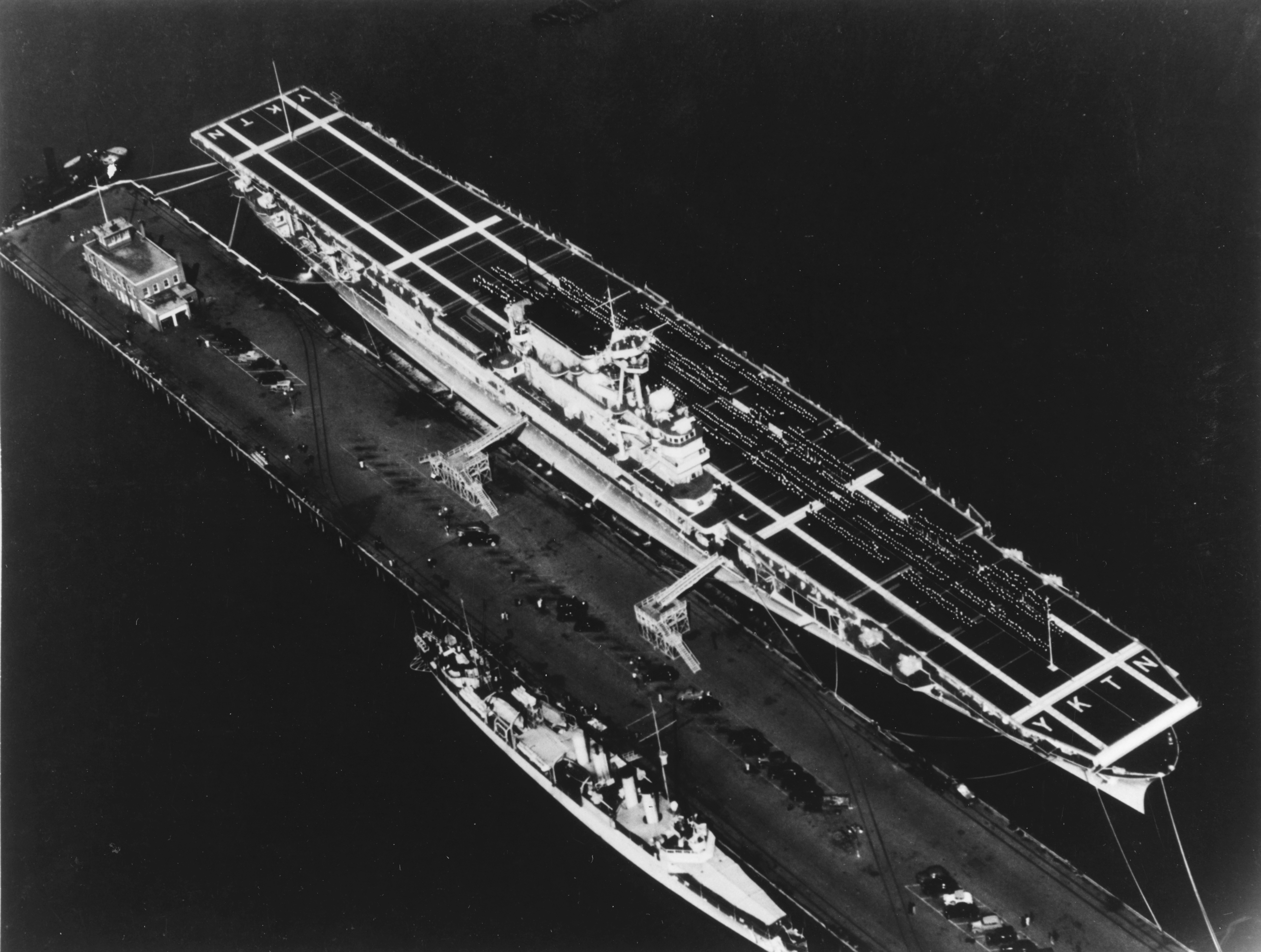 The U.S. Navy aircraft carrier USS Yorktown (CV-5) tied up at Pier 7, Naval Operating Base Norfolk, Virginia (USA), on 30 September 1937, with commissioning ceremonies underway on her flight deck. The destroyer USS Jacob Jones (DD-130) is on the opposite side of the pier.